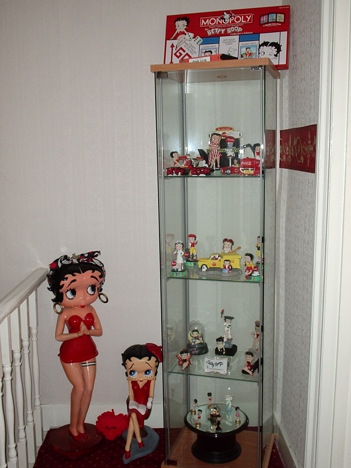 My mothers display of Betty Boop memorabilia. Taken at home in 2005.